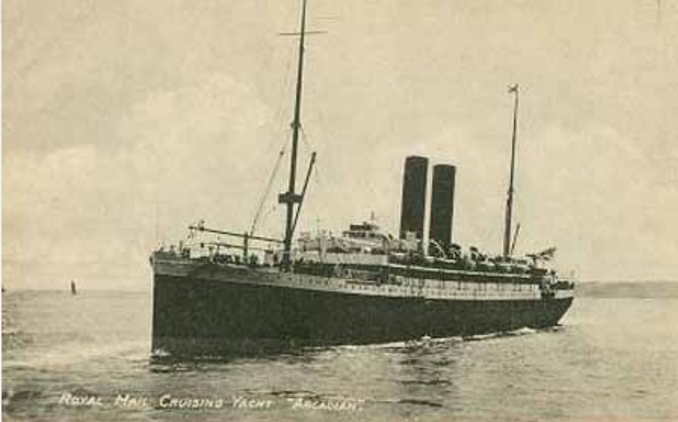 Pacific Steam Navigation Co passenger liner Ortona: built in 1899, converted to a cruise ship in 1910 and renamed Arcadian, and sunk by a U-boat in 1917